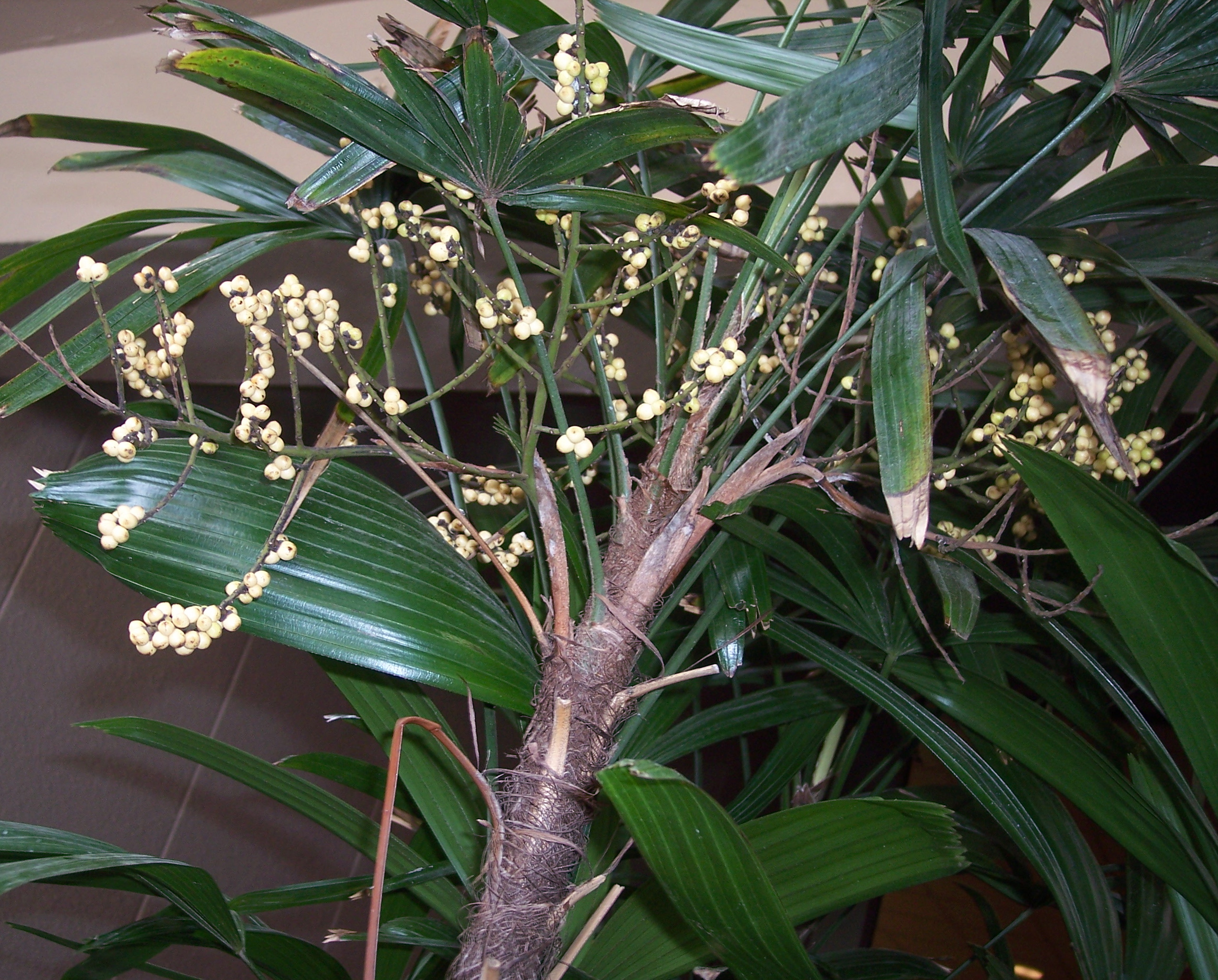 Three fruiting branches on a female Rhapis excelsa I noticed in Ybor City - Tampa, Fl. Organs are branched to two orders, emerging within the leaf crown; the small, white fruit develop from one or rarely two or three carpels. The mesocarp is fibrous and fleshy, the endocarp thin and brittle. The small seeds sprout via remote tubular germination with a slender, undivided eophyll.